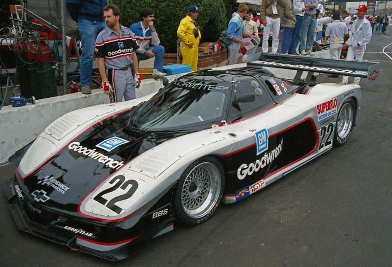 Bobby Rahal drove this Hendrick Motorsports Corvette GTP to a fifth-place finish at the 1988 Del Mar IMSA Camel GT race.